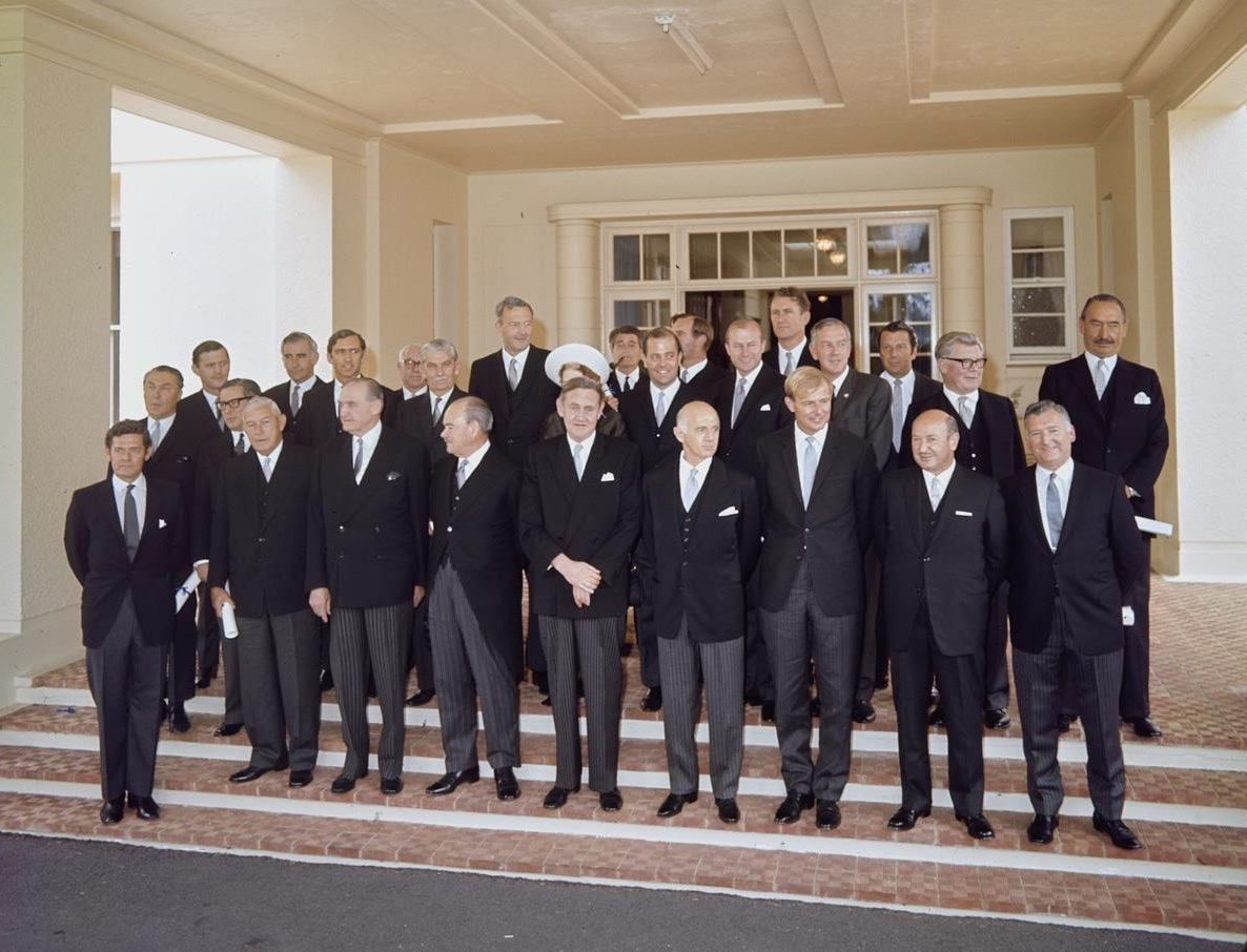 The Second Gorton Ministry being sworn in by Governor-General Sir Paul Hasluck